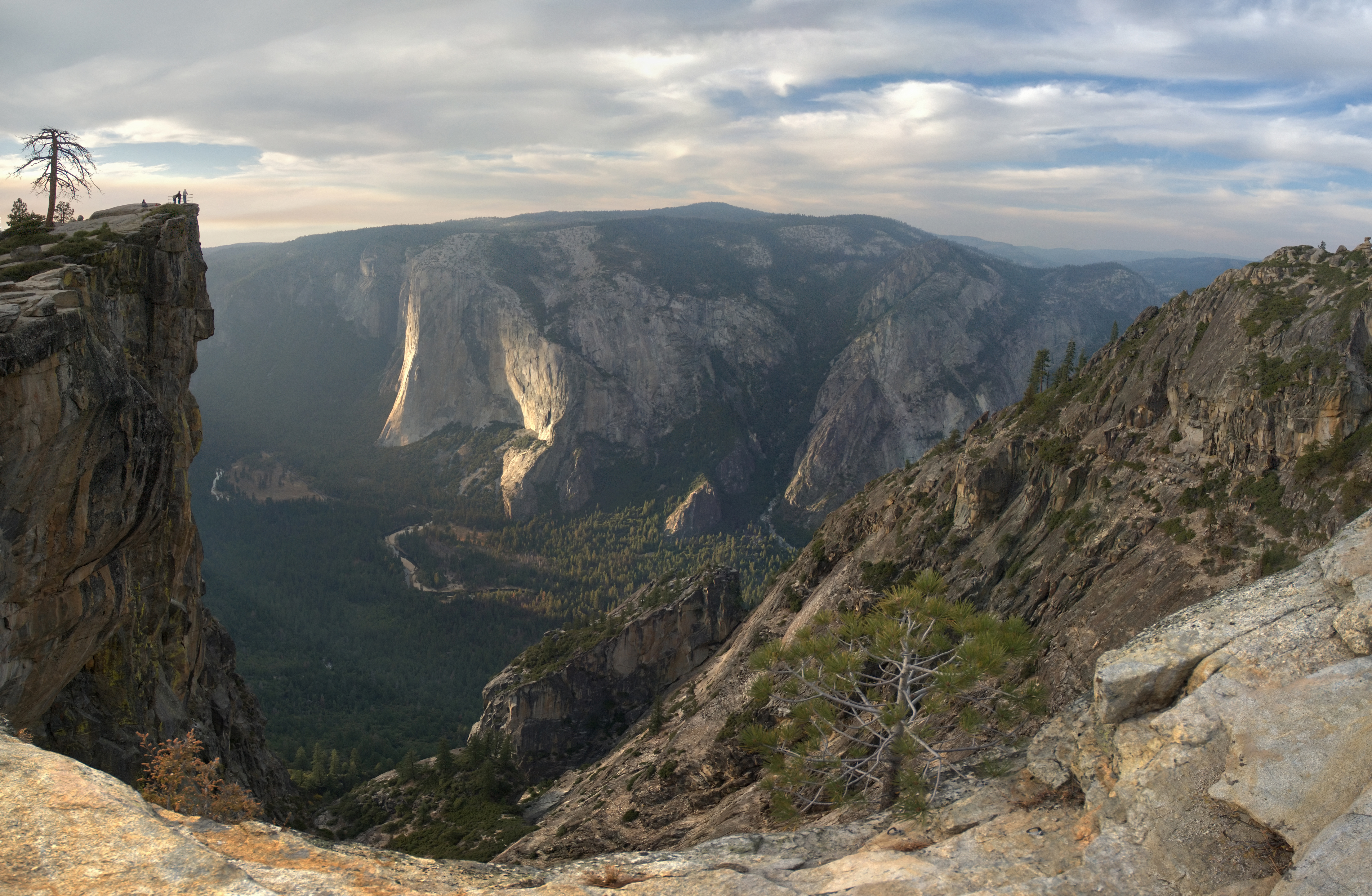 Taft Point above Yosemite Valley, Sierra Nevada, California, United States 8 megapixel Stitched Panorama. 21 shots, stitched with Autopano Pro, processed in Photoshop.